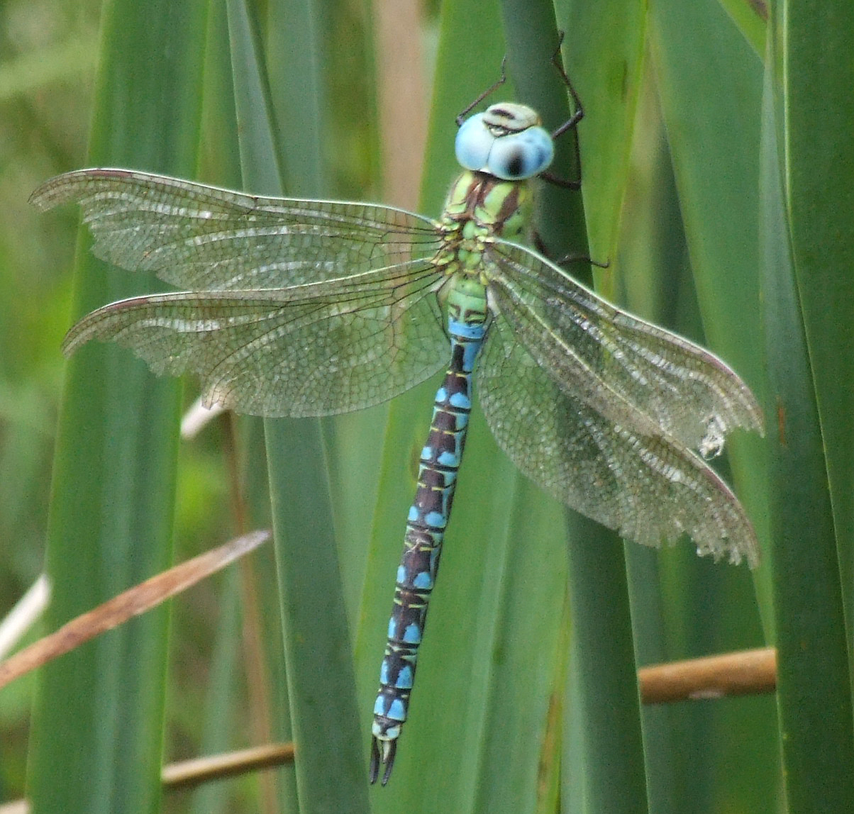 Green Hawker (Aeshna viridis Eversmann 1836),male, in Kirchwerder, Hamburg, Germany (resting at the bank on Typha angustifolia overlooking the Stratiotes aloides)